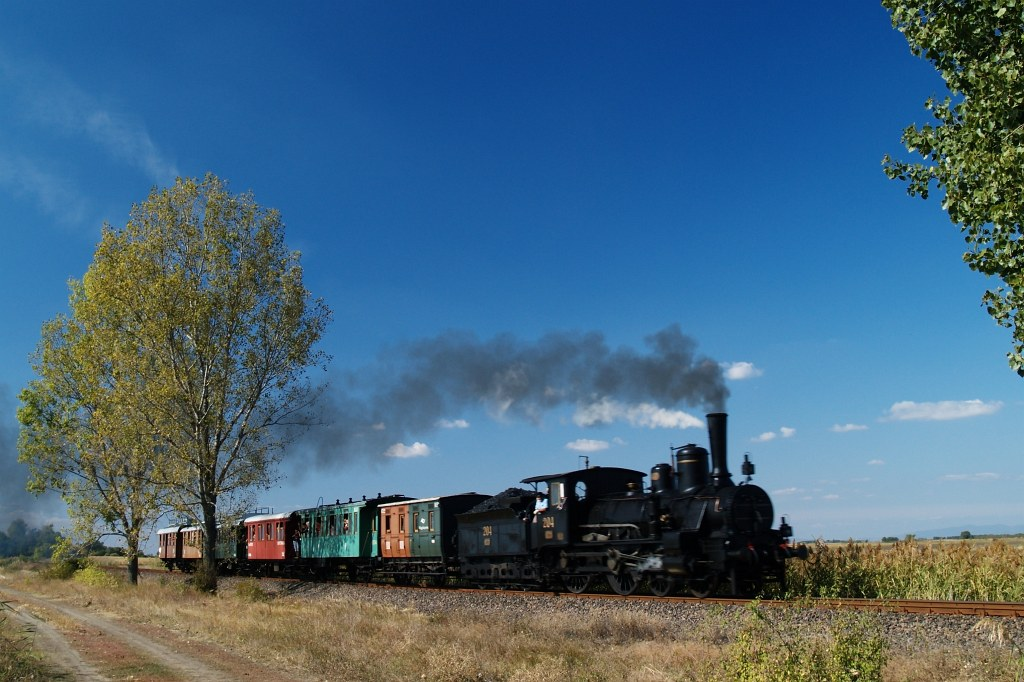 The steam locomotive of the Hungarian State Railways (MÁV) 220,204 is pulling a historic train between Jászdózsa and Jászapáti.